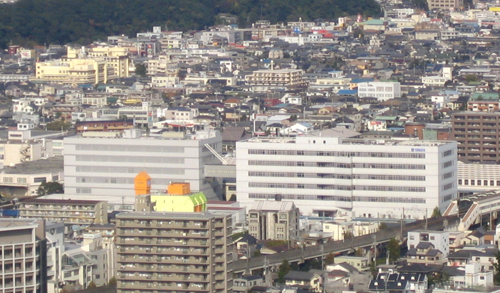 Yamaha Machados (ヤマハ), in Hamamatsu, Shizuoka, Japan